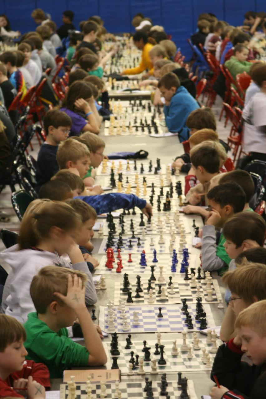 A children's chess tournament in Minnesota, 2009.